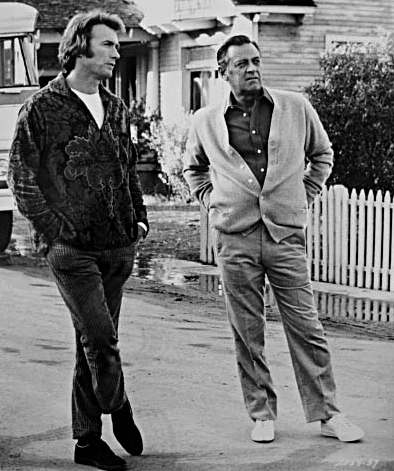 Original studio candid photo of director Clint Eastwood and actor William Holden